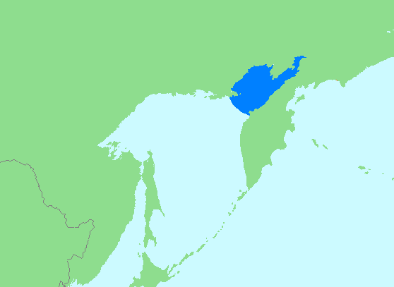 Location map of Shelikhov Gulf (Shelikhov Bay) — in the northeastern Sea of Okhotsk, Russia. Located between the northwestern coast of Kamchatka Peninsula (Kamchatka Krai) and the Russian mainland (Magadan Oblast).